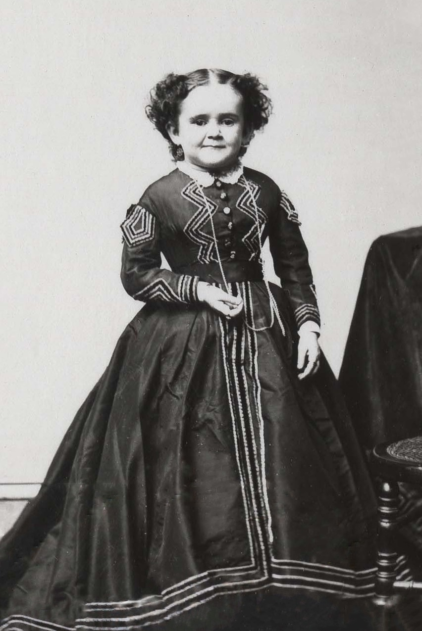 Minnie Warren, the sister of Lavinia Warren "Thumb," was a midget who performed in Barnum's shows.